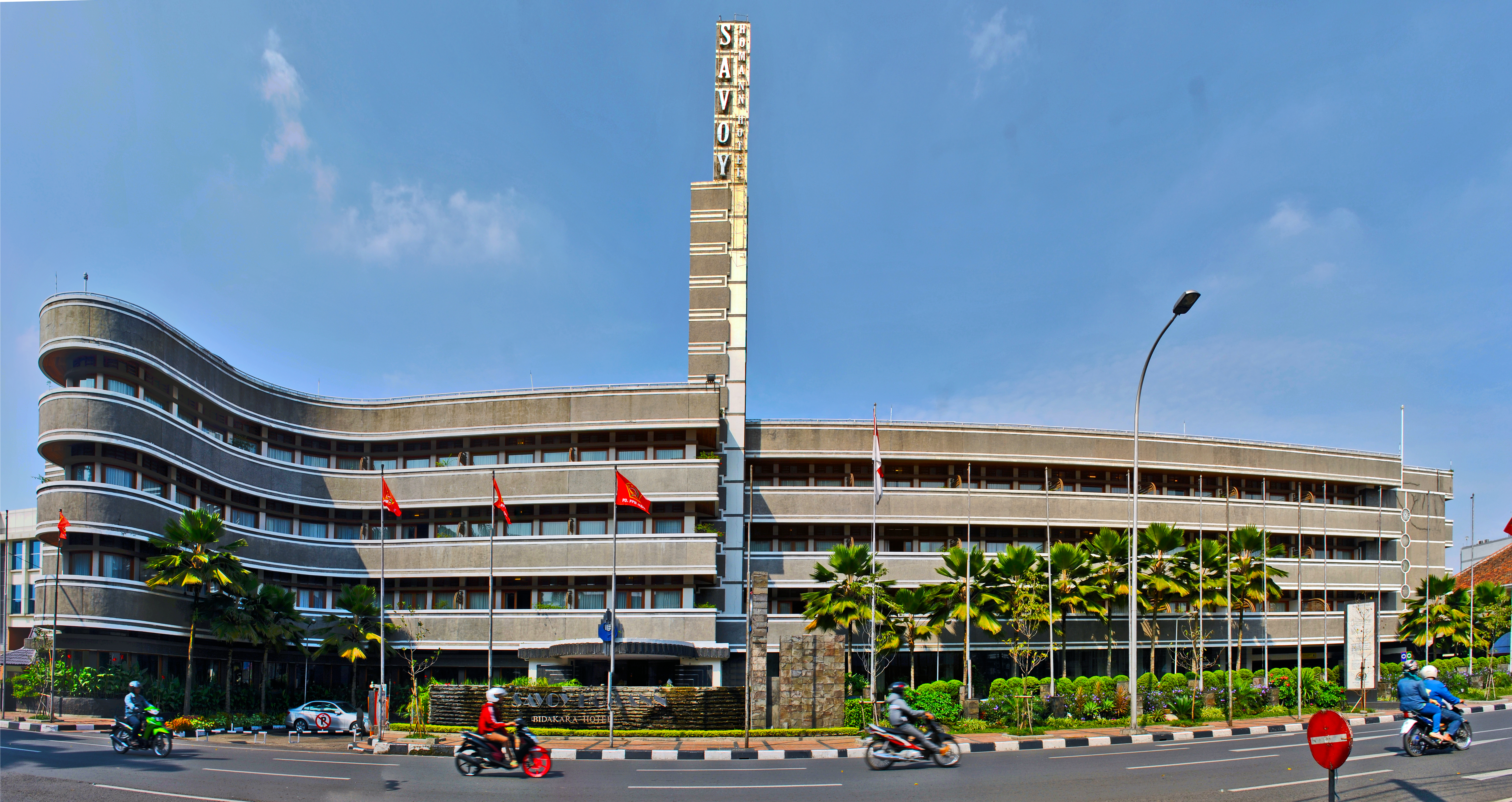 The iconic art deco hotel designed by Albert Aalbers and completed 1939. 15 images stitched using Hugin. Hotel bersejarah karya Albert Aalbers, selesai dibangun 1939. 15 foto digabung menggunakan Hugin. Panoramio mirror